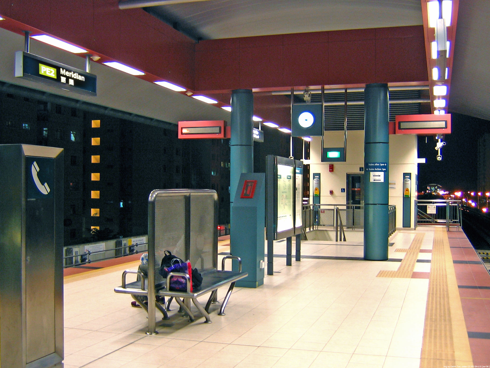 Meridian Station (PE2) on the Punggol LRT West Loop in Singapore